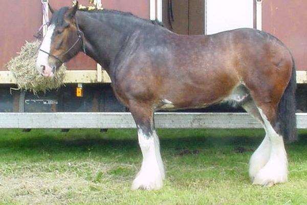 Shire horse. I took this photograph today at Tabley in Cheshire, UK, and afterwards trimmed it.